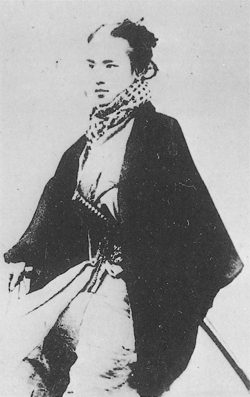 Portrait of Katsura Taro (桂太郎, 1848 – 1913)